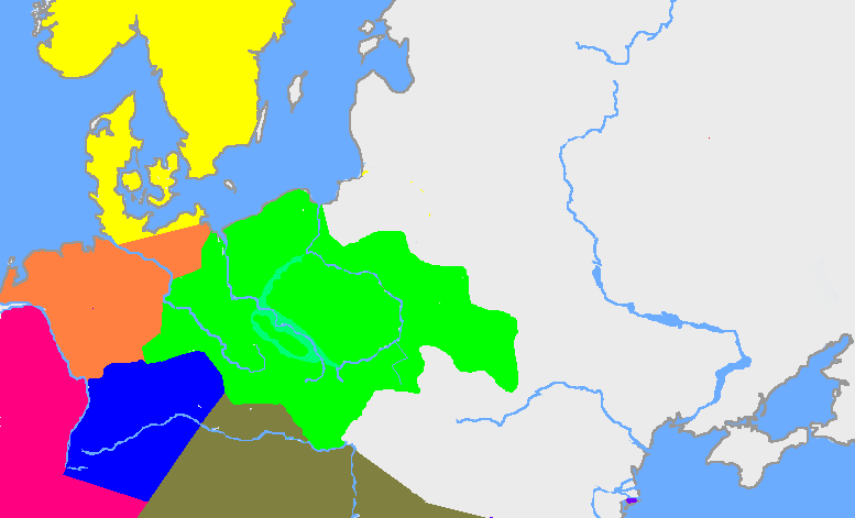 The Lusatian culture (green area) by Z. Bukowski